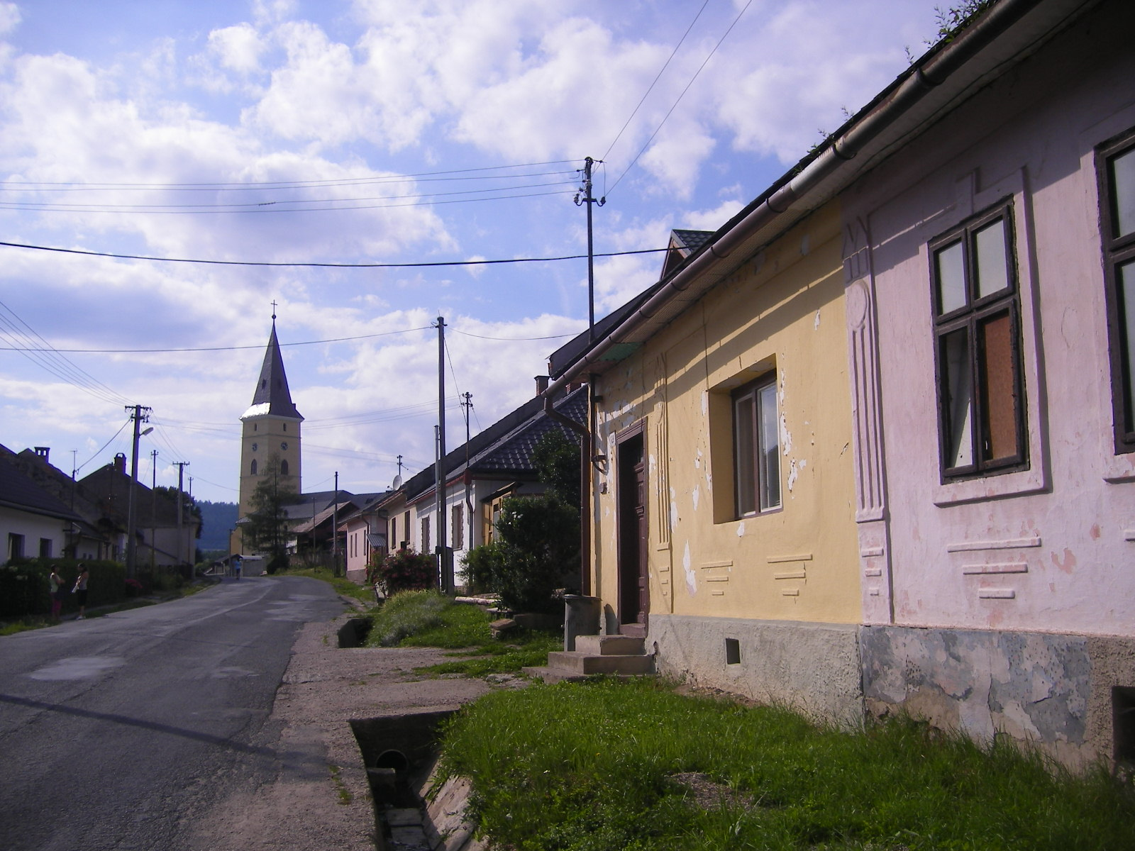 Švedlár - street view